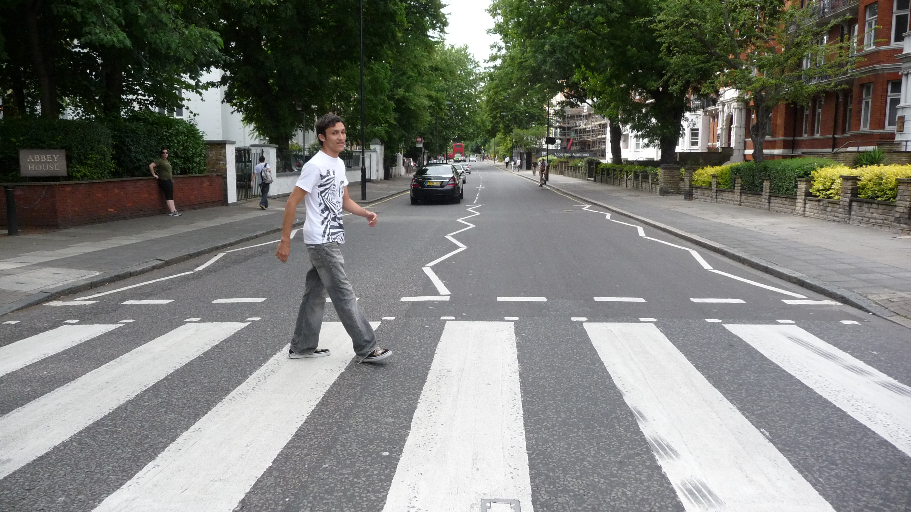 The famous zebra crossing in Abbey Road where The Beatles photgraphed the cover for Abbey Road.